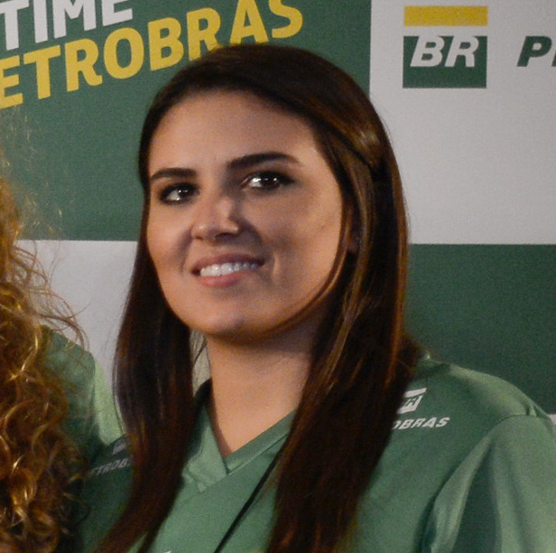 Amanda Simeao - crop from picture with Iris Sing, Vanessa Cozzi, Amanda Simeao 2016 - Rio de Janeiro